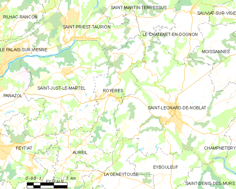 Map of French municipality Royères